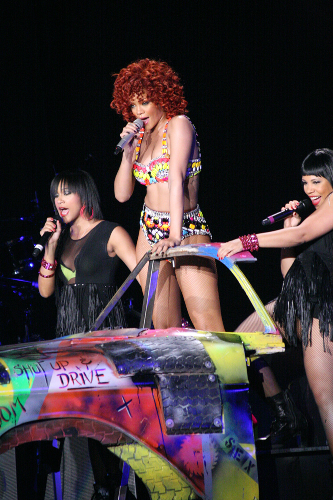 Rihanna Live at Target Center on her LOUD Tour.